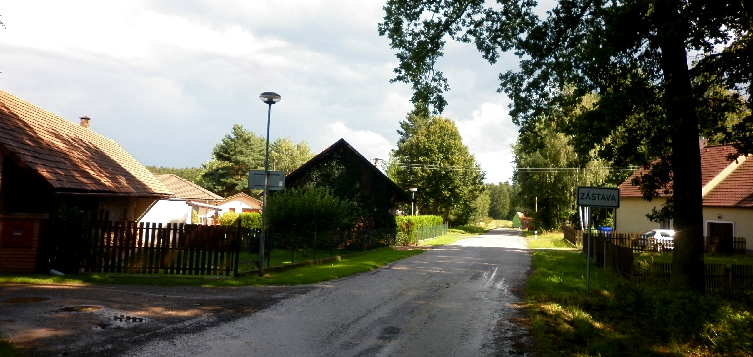 Zástava, part of Újezd u Sezemic, in Pardubice District